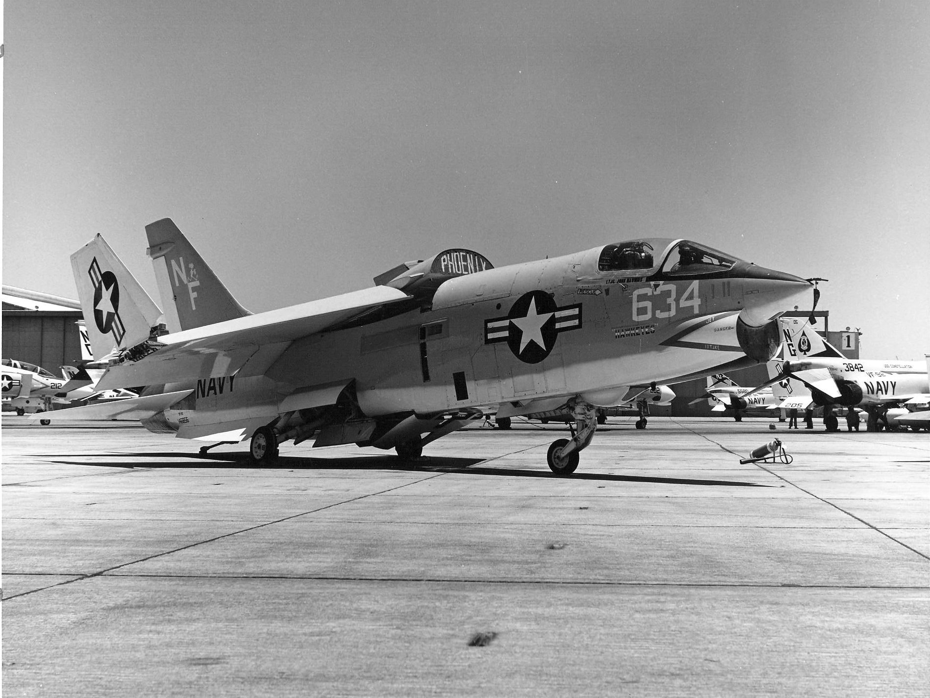 A U.S. Navy Vought RF-8G Crusader (BuNo 146865) of Photographic Reconnaissance Squadron VFP-63 Det.3 "Eyes of the Fleet" at Naval Air Station Midway (USA), in 1974. VFP-63 Det.3 had been assigned to Carrier Air Wing 5 aboard the aircraft carrier USS Midway (CVA-41). Note other aircraft of CVW-9 from USS Constellation (CVA-64) in the background. The Constellation was deployed to the Western Pacific and the Indian Ocean from 21 June to 23 December 1974. 146865 was on its way back to the continental United States and had departed Naval Air Facility Atsugi, Japan, on 29 April 1974 as the Crusaders of CVW-5 were replaced by U.S. Marine Corps RF-4B Phantom IIs.